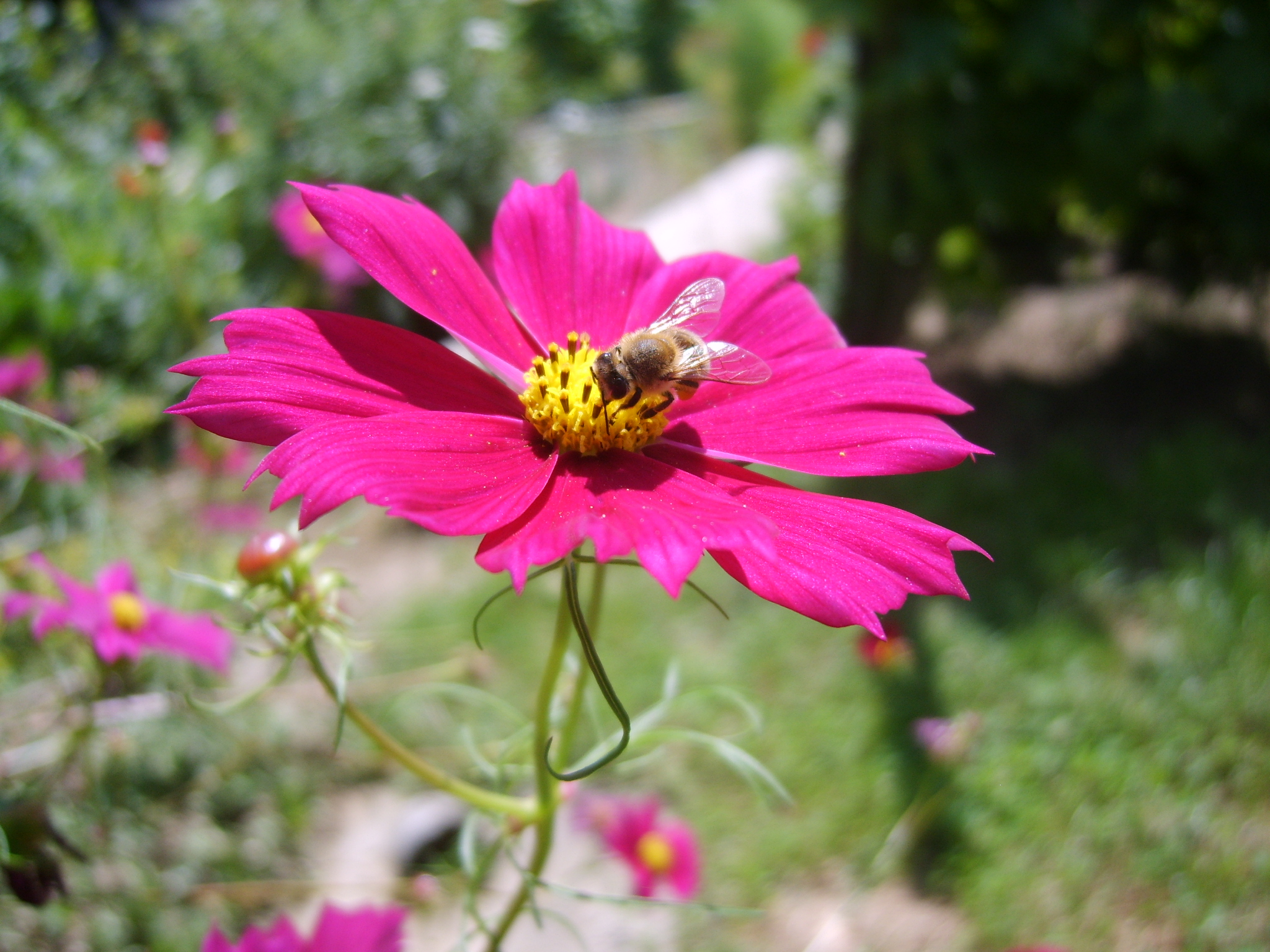 honey-bee